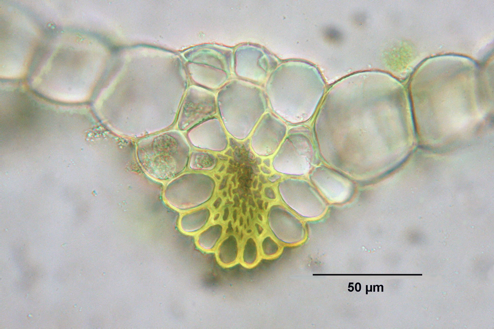 Rhodobryum ontariense